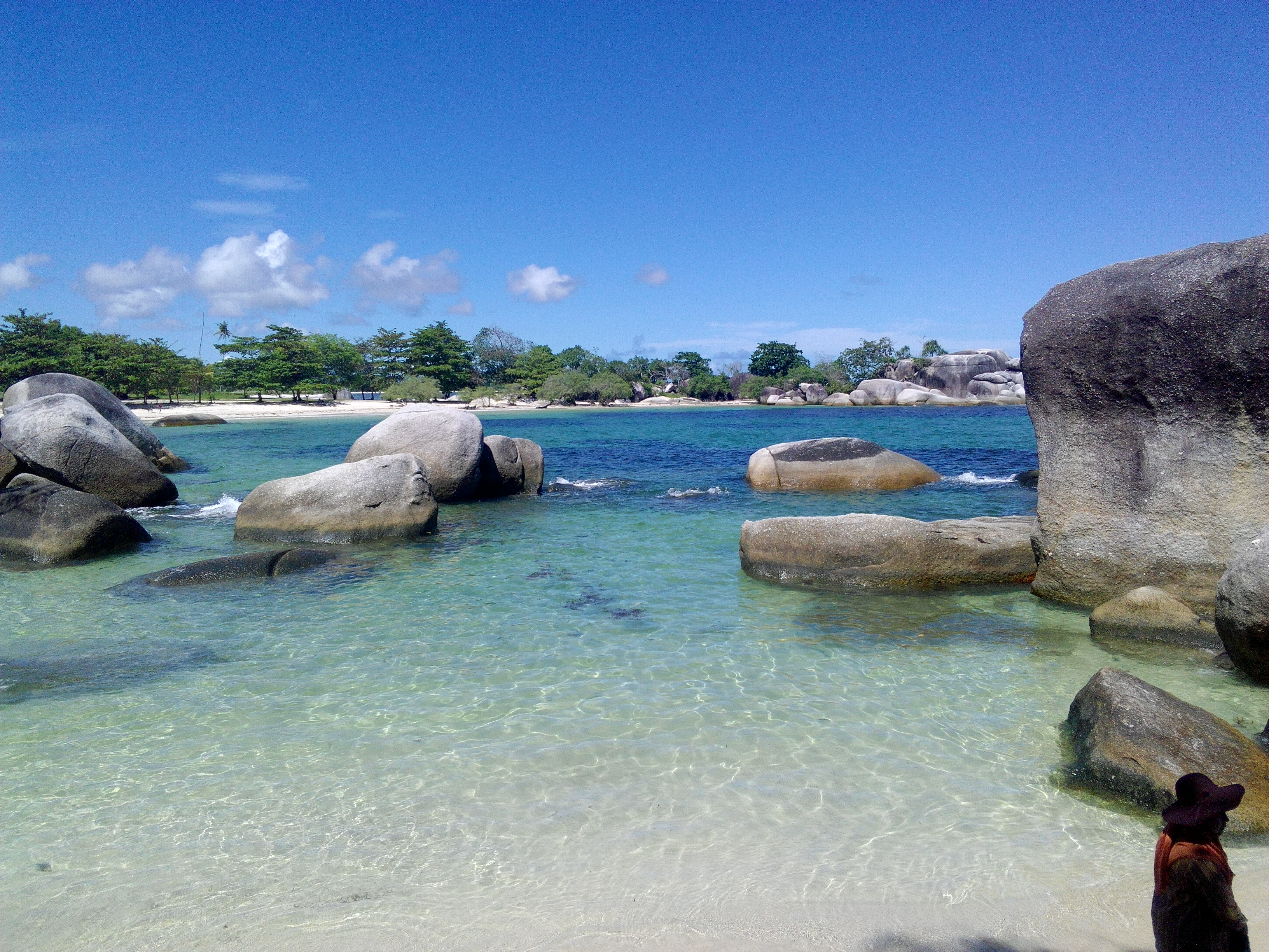 Photoraphed at Tanjung Tinggi Beach, Bangka-Belitung Province, Indonesia